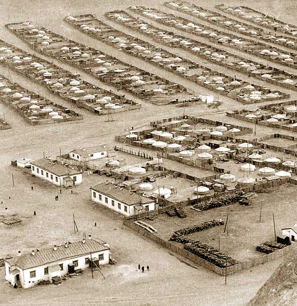 Yurt quarter under the Zajsan Hill, Ulan Bator, Mongolia, (1972).